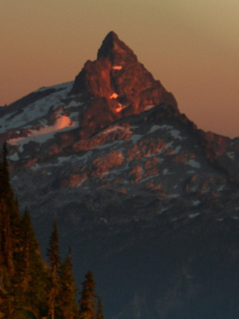 Sloan Peak at sunset, taken by my brother with permision, from Stujack Pass on Mount Pugh, I used picasa 2 to help fix up this photo to make more realistic. It has a hieght of 7,835 ft (2,388 m) and was nicknamed the Matterhorn of the Cascades. The photo it self was taken back in 2006 in August.